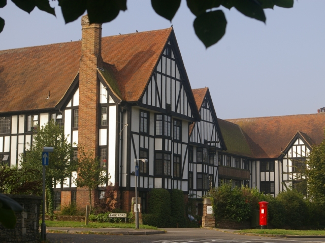 Queen's Close, Esher. This building contains apartments and is in Lammas Lane, Esher overlooking the green.